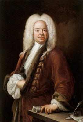 Work by Johann Conrad Eichler (1731)